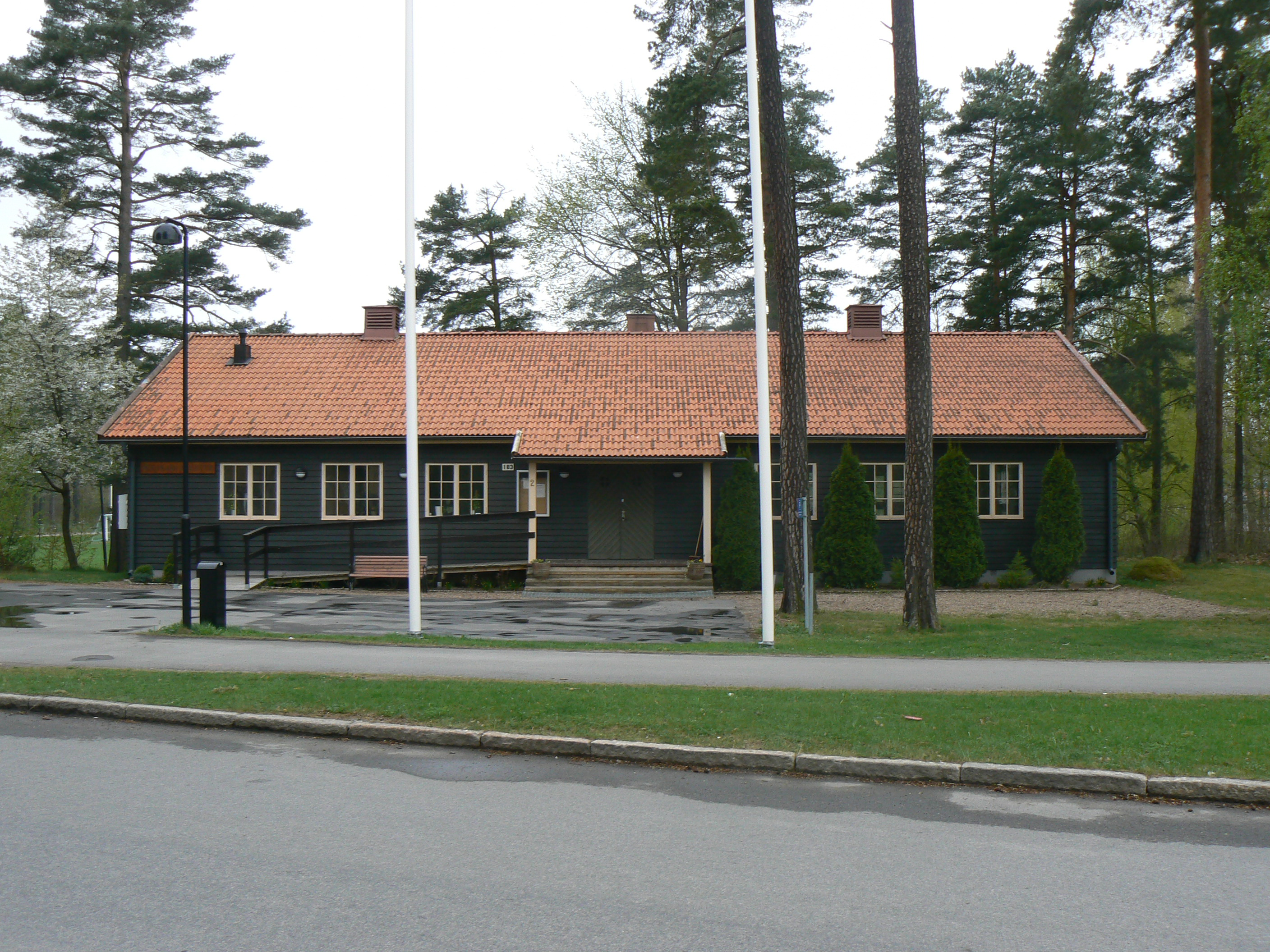 Garnisonskyrkan, Church in the Parish of Berga, Diocese of Linköping, Sweden.